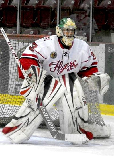 This photo was taken by Devan Mighton during the 2013-14 GOJHL season.